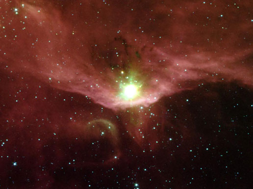 A picture of the Natal Microcosm